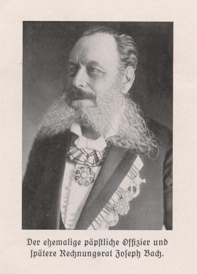 Joseph Alois Bach, papal officer